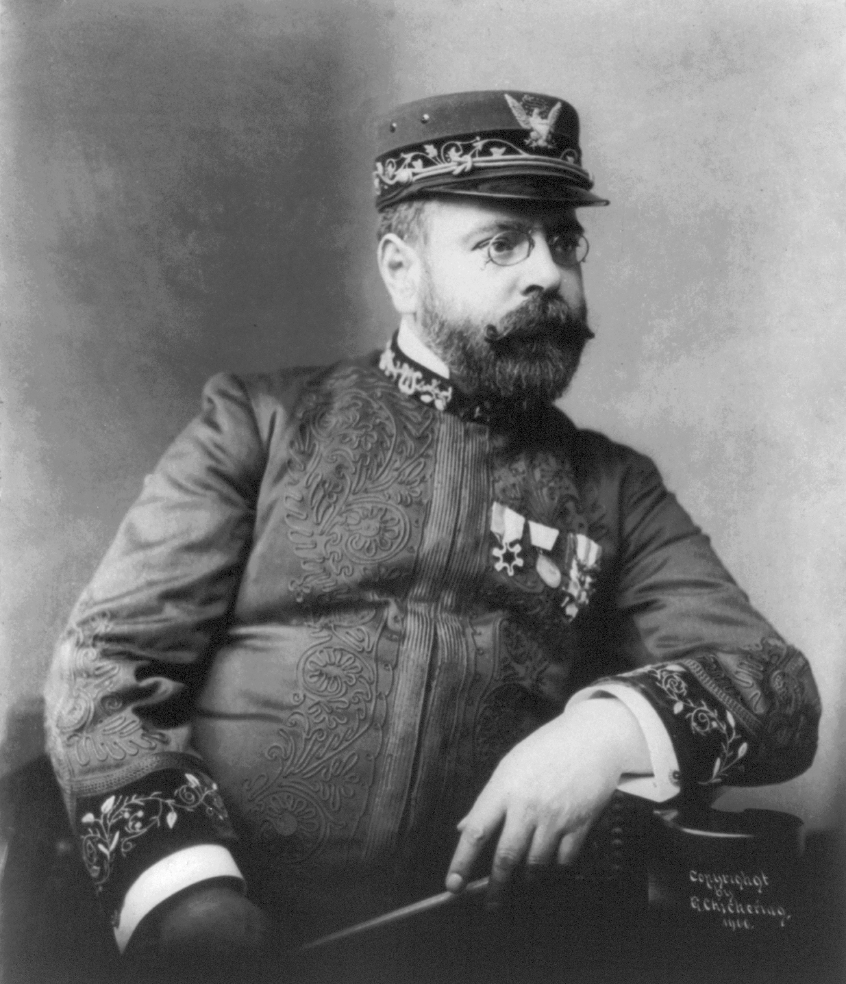 John Philip Sousa. Lightly restored by Adam Cuerden, but just the removal of a few specks; took ten minutes, do not credit me for this one.